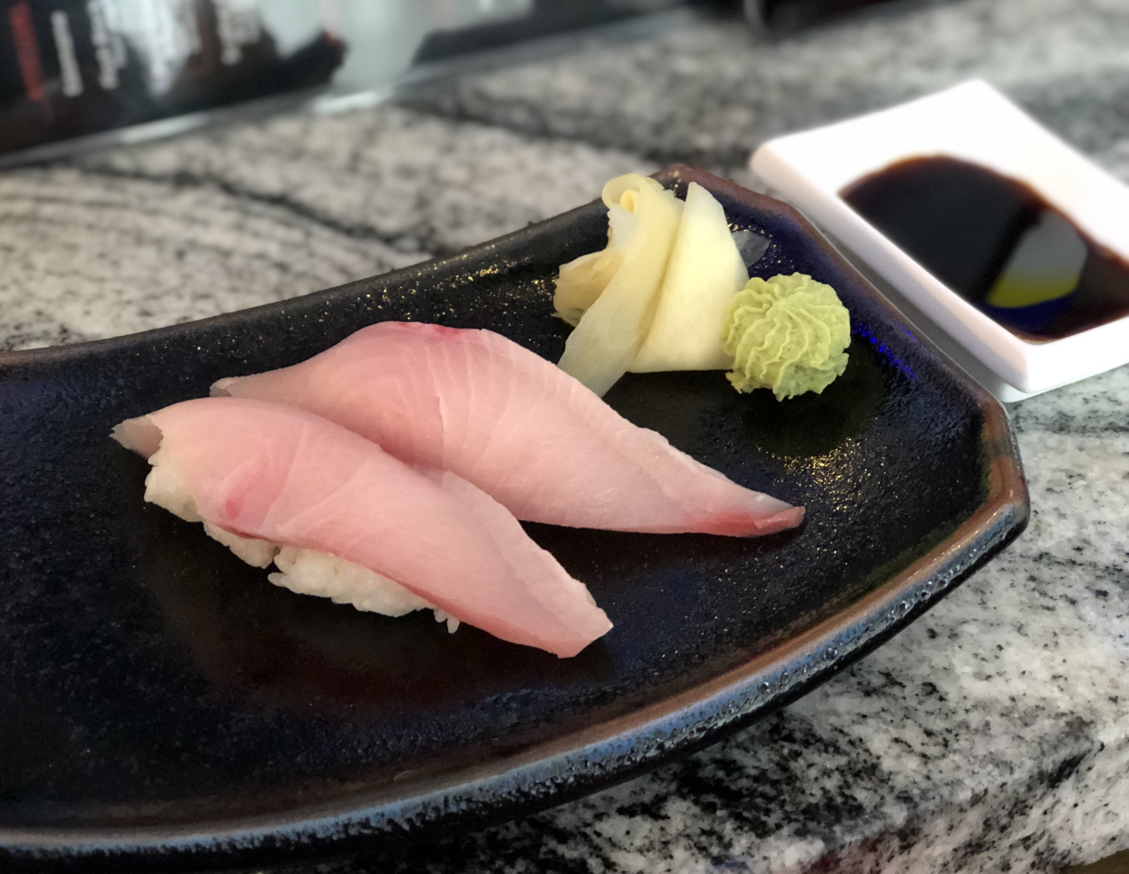 Two pieces of hamachi (tuna) nigiri at Sushi Fly in Monterey, California